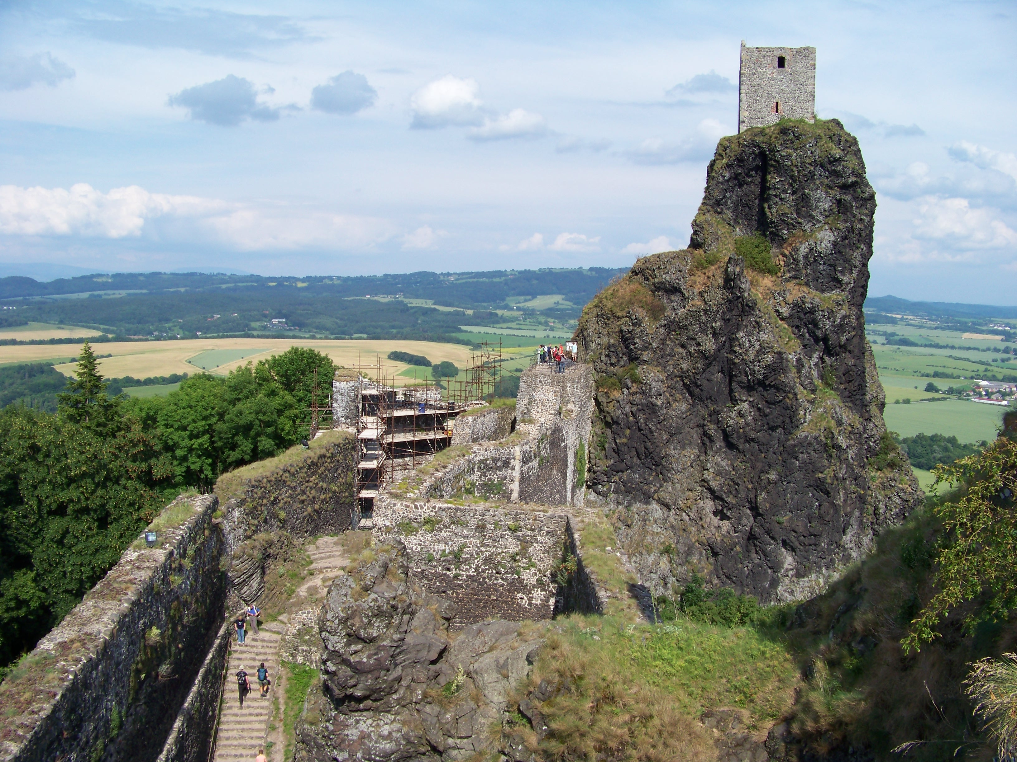 Troskovice, Liberec Region, the Czech Republic. Views from Trosky Castle to the Ost.